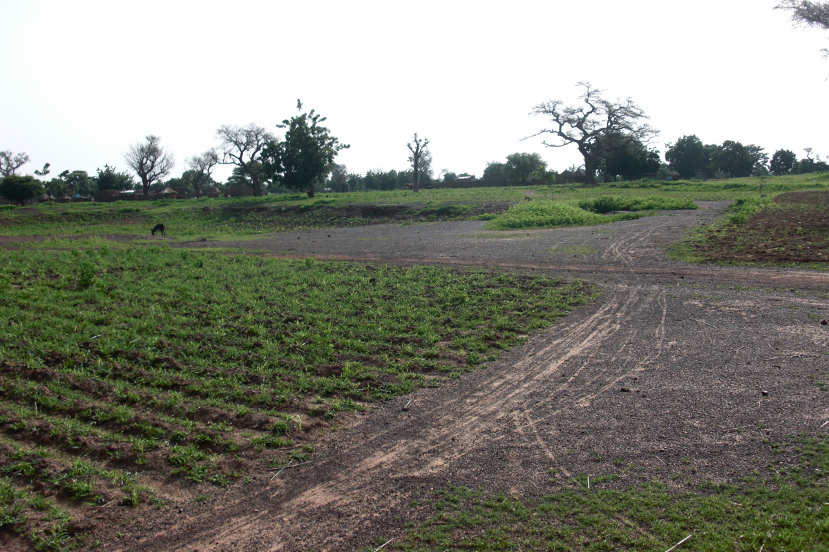 Burkina Faso agriculture (Tibin village, near Ziniaré, Oubritenga). Source: Grandjean, Martin (2013) Burkina Faso : fascinante organisation de l'espace